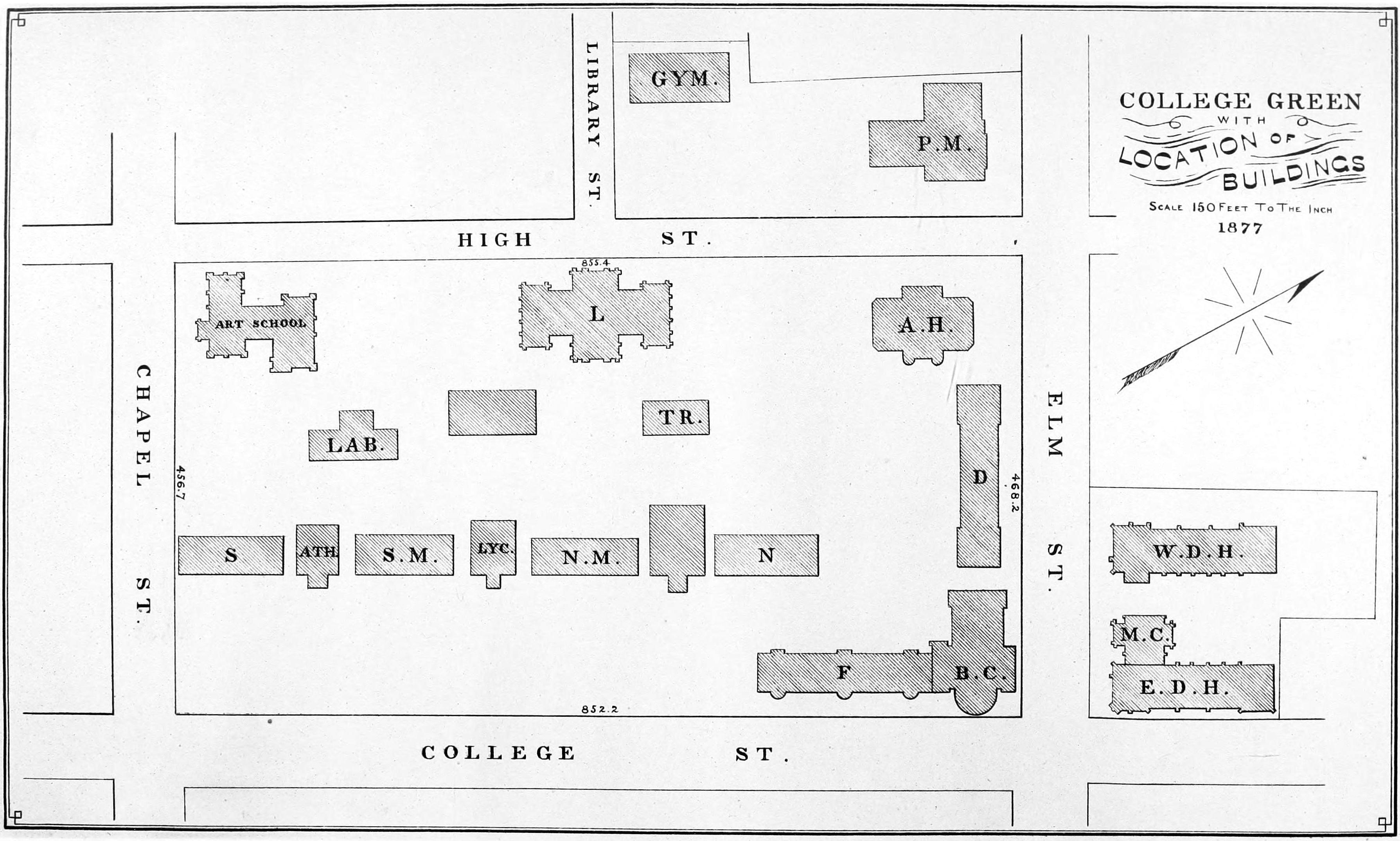 Figure-ground map of Yale College campus produced for Yale College: A Sketch of its History, published in 1879. Abbreviations are as follows: Gym: Old Gymnasium; P.M.: Peabody Museum; Art School: Street Hall; L: College Library; A.H.: Alumni Hall; Lab: Old Laboratory; TR: Treasury (formerly Trumbull Gallery); D.: Durfee Hall; S: South College; Ath: Athanaeum; S.M.: South Middle College (Connecticut Hall); Lyc: Connecticut Lyceum; N.M.: North Middle; N.: North College; F.: Farnam Hall; W.D.H.: West Divinity Hall; M.C.: Marquand Chapel; E.D.H.: East Divinity Hall.